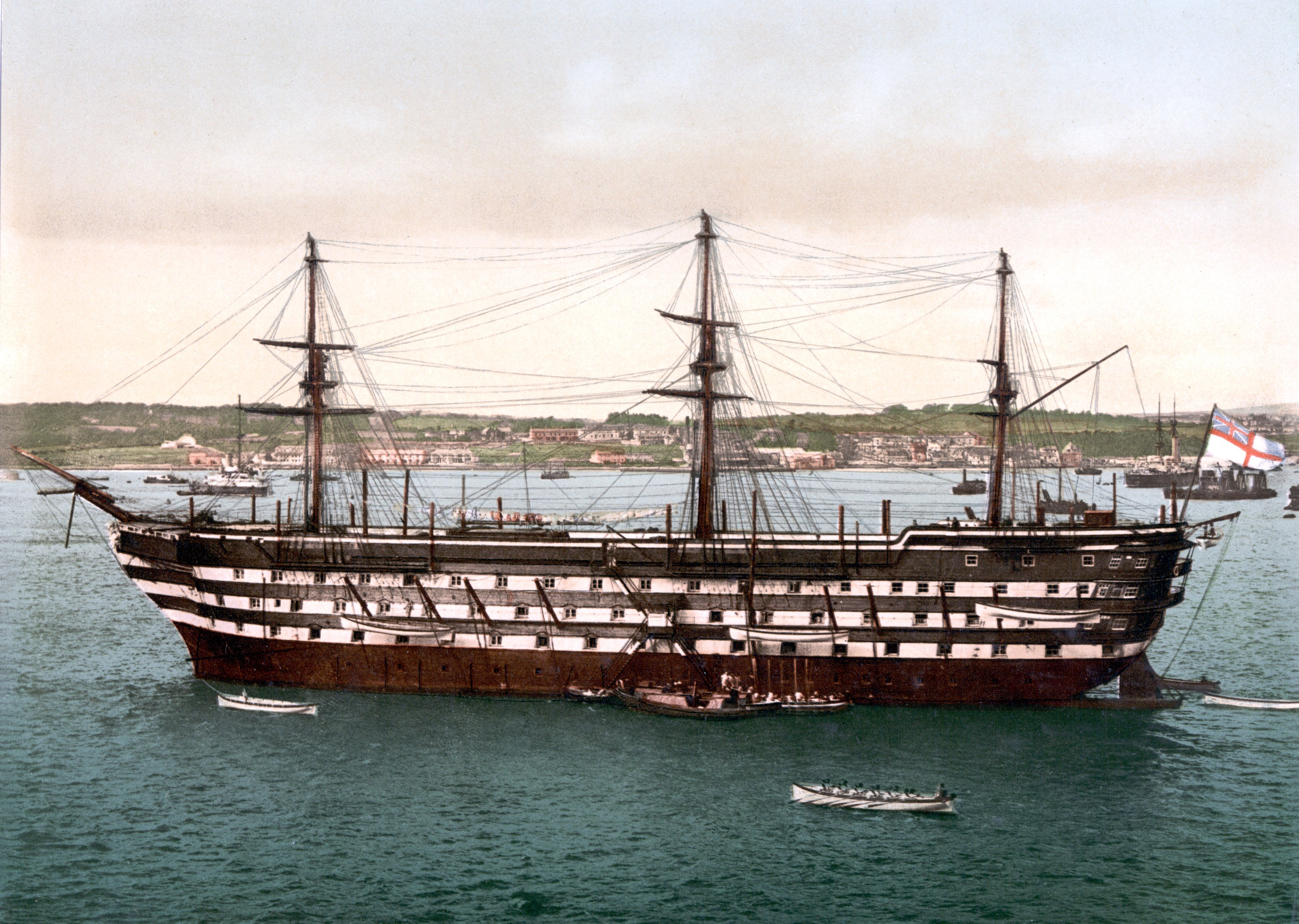 HMS Impregnable, formerly HMS Howe, in the Hamoaze off Devonport Dockyard in the 1890s